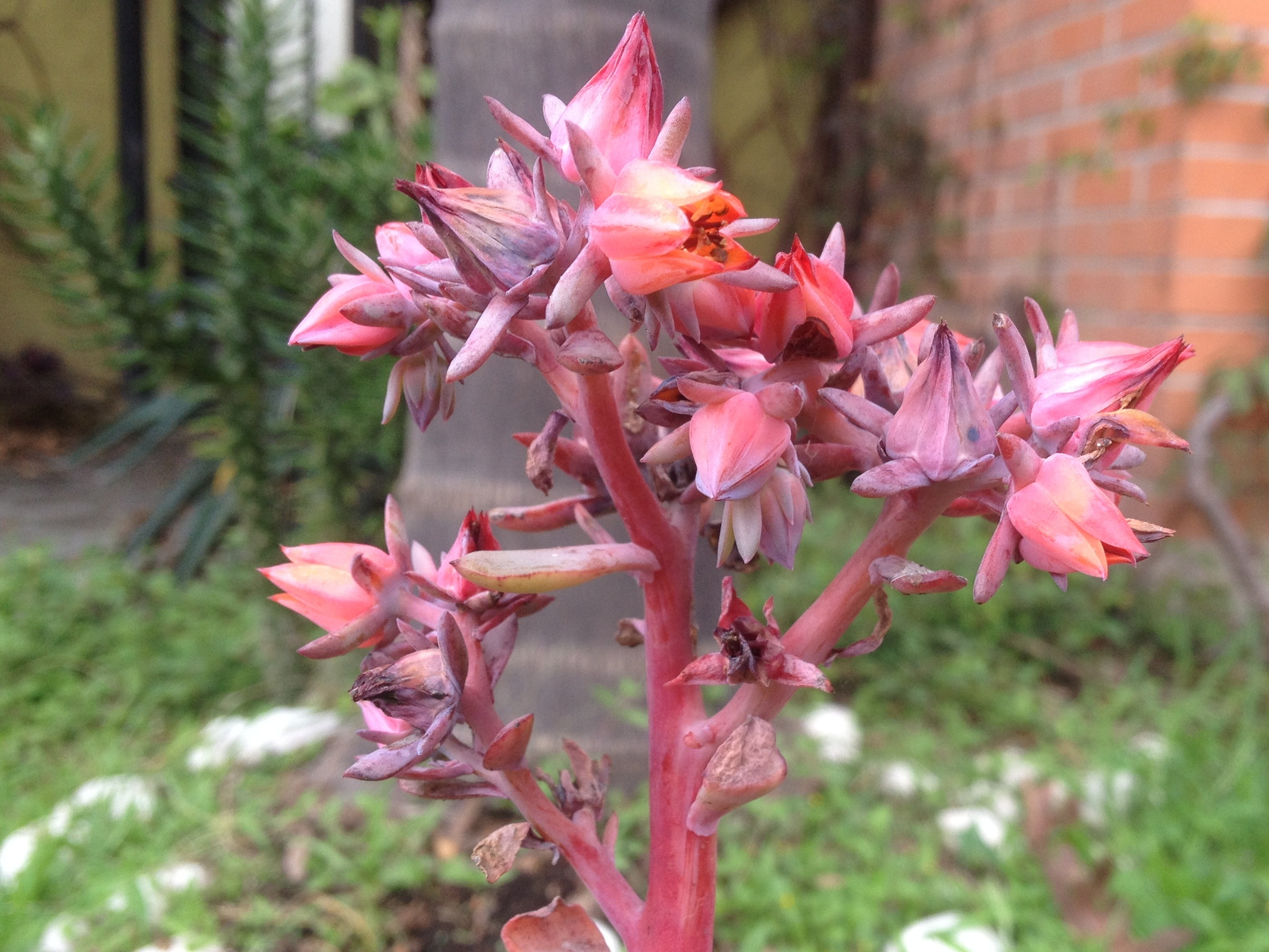 Echeveria rubromarginata is a succulent plant in the stonecrop family Crassulaceae. It is native of the eastern Trans-Mexican Volcanic Belt. This photo, taken in October 2018, is from my garden in Cholula (Puebla). My plant grew from a cutting I collected in November 2017 from Cerro Verde, in Maziltepec de Juárez, Pue.